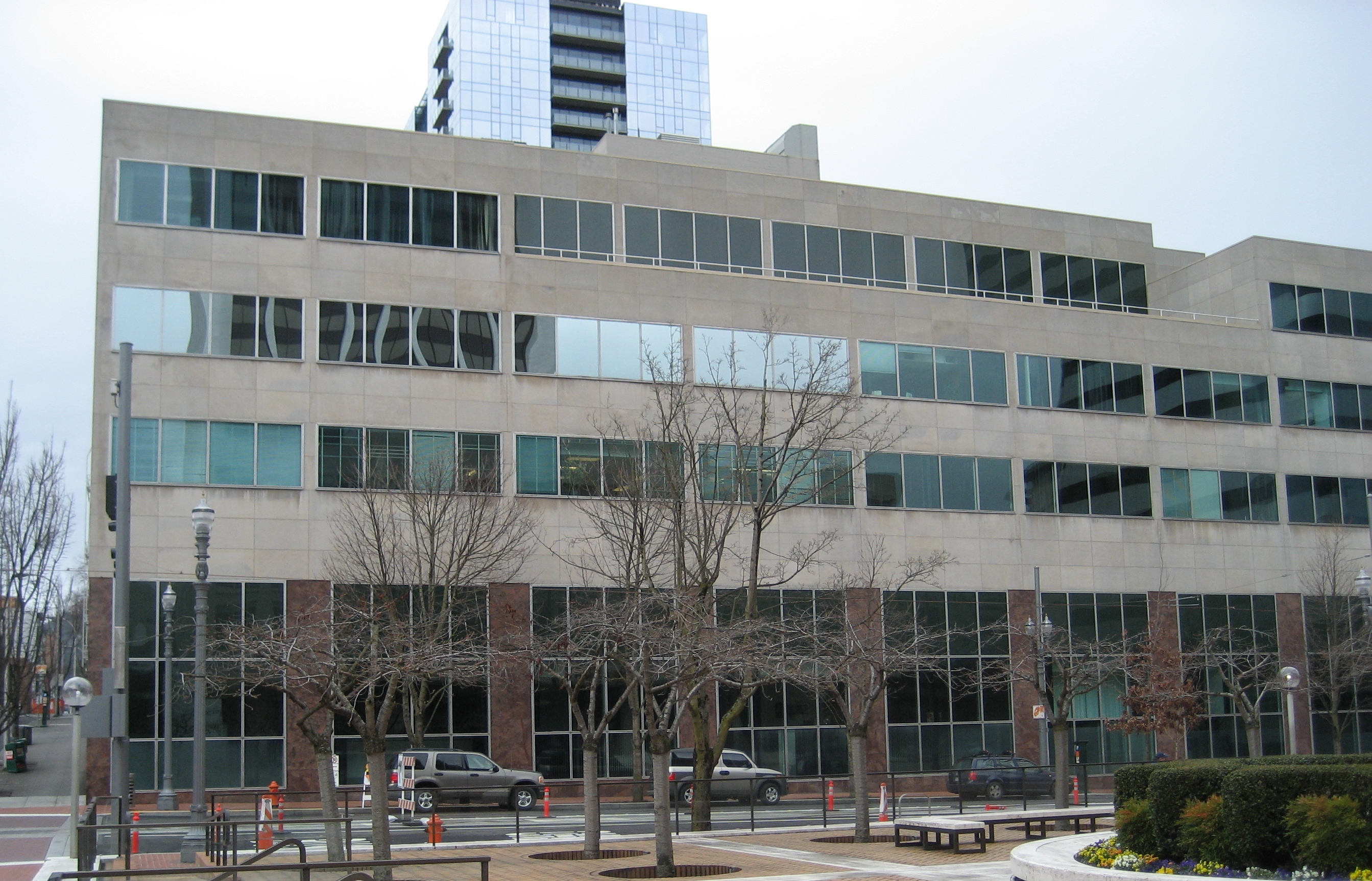 The Oregonian's 1948–2014 headquarters building in downtown Portland, Oregon, USA